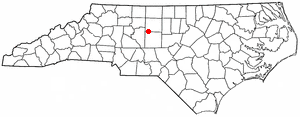 Category:North Carolina Dot Maps